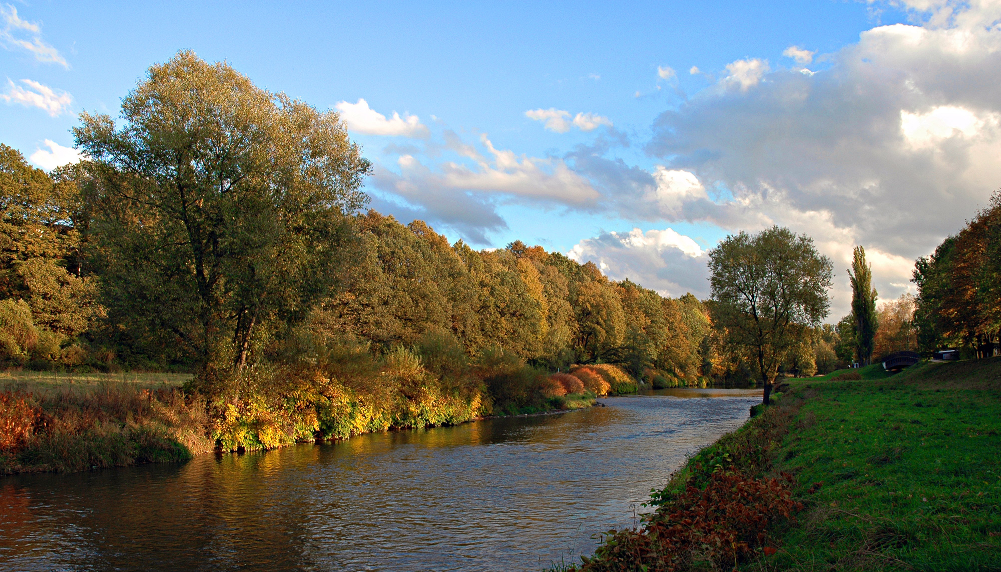 This image shows the river "Zwickauer Mulde" in Zwickau/Germany.